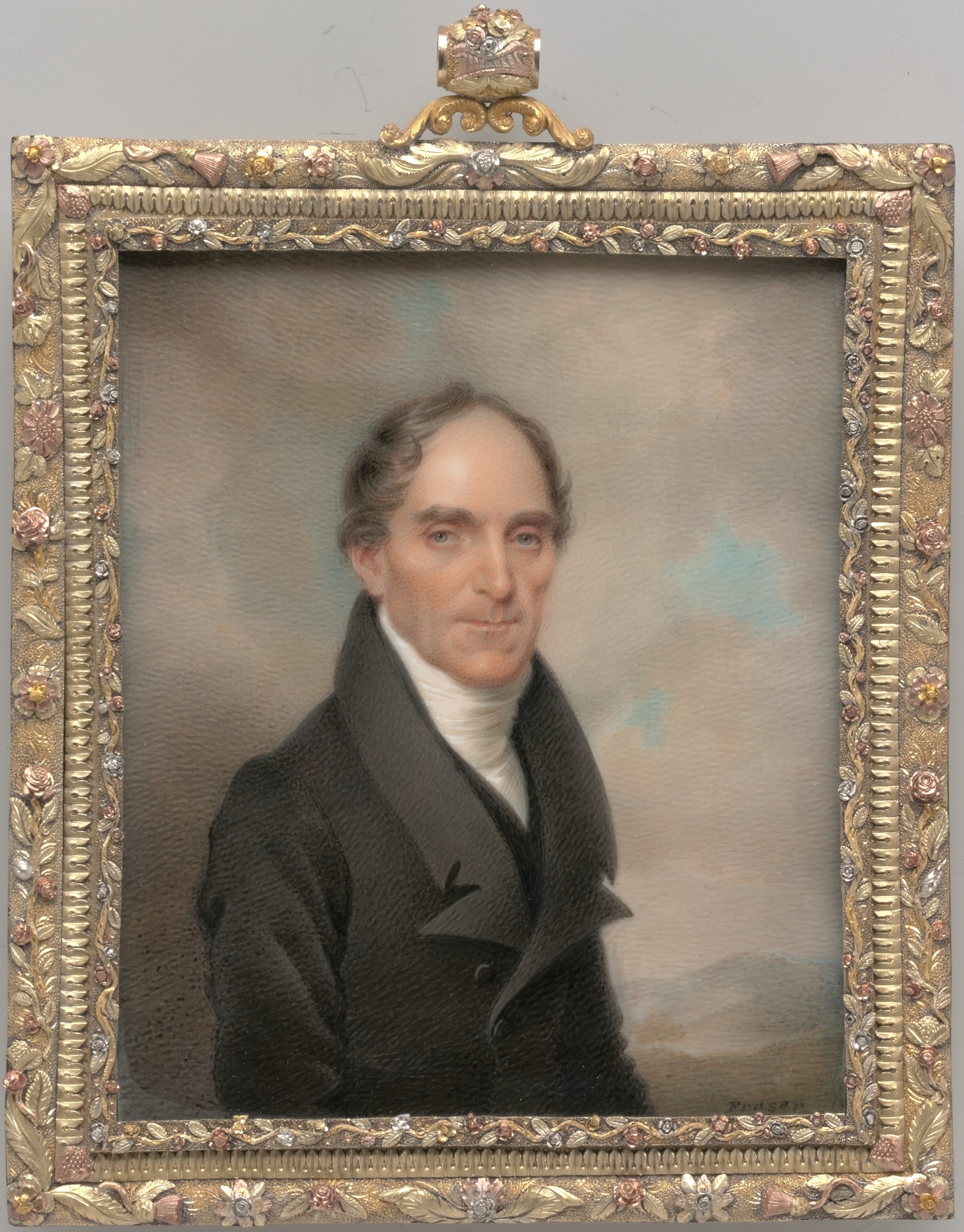 Francis Kinloch Huger (1773-1855) was a surgeon in Charleston. On the occasion of the Marquis de Lafayette's visit to Charleston in 1825, the city commissioned this miniature and gold frame as a gift to Lafayette in commemoration of his friendship with Huger. For eight months in 1794-95, Huger had been imprisoned for his role in trying to free Lafayette from the Austrian fortress of Olmütz.